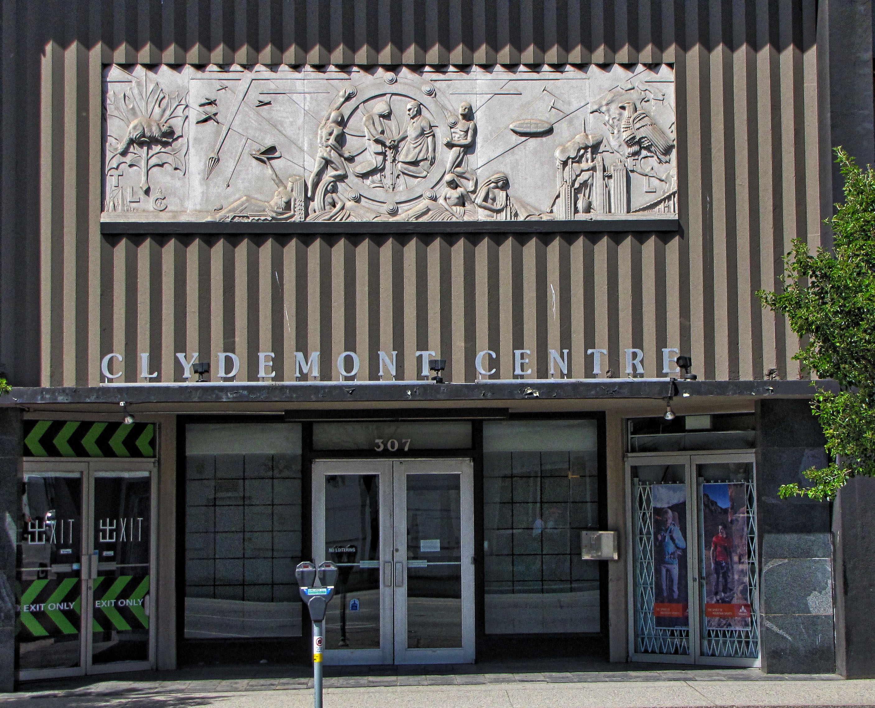 An elegant figurative relief in nouveau modernist style depicts nature and industry and stands out against a corrugated background surface. The building was formerly the Vancouver Labour Temple. The image is based on the wheel of industry and the figures include people engaged in different kinds of work, airplanes, buildings, plants, birds, and animals on a background of sun rays. By Beatrice Lennie, 1949. From TLC = Trades and Labour Congress; AFL = American Federation of Labour